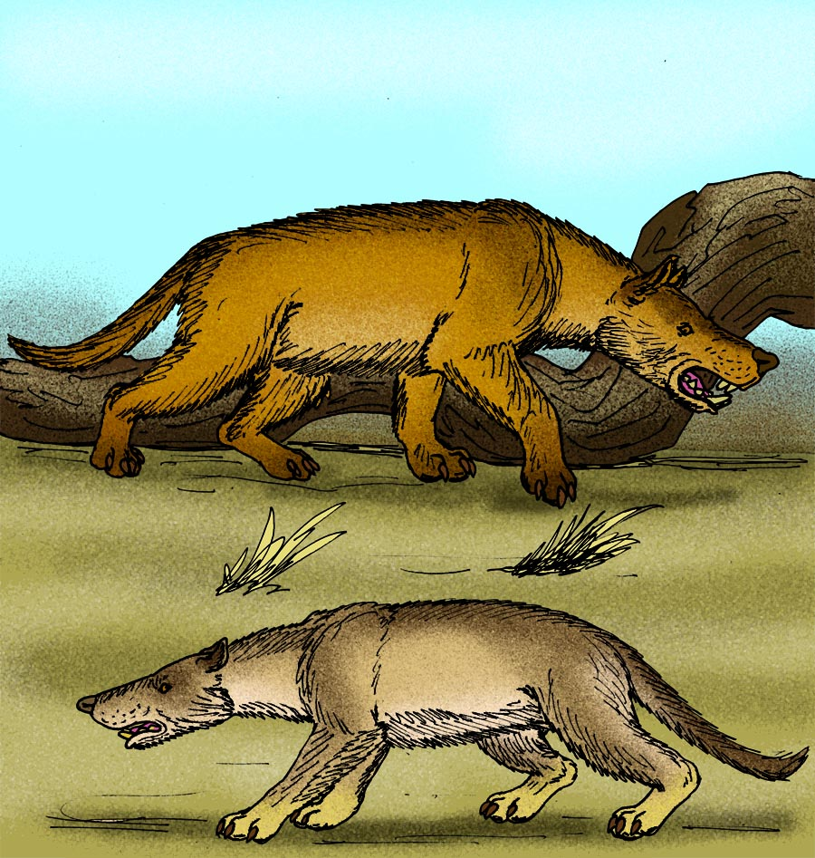 Comparison of the three meter long Hyaenodon gigas with the slightly smaller H. mongoliensis, from the Oligocene of China. (c) Stanton F. Fink